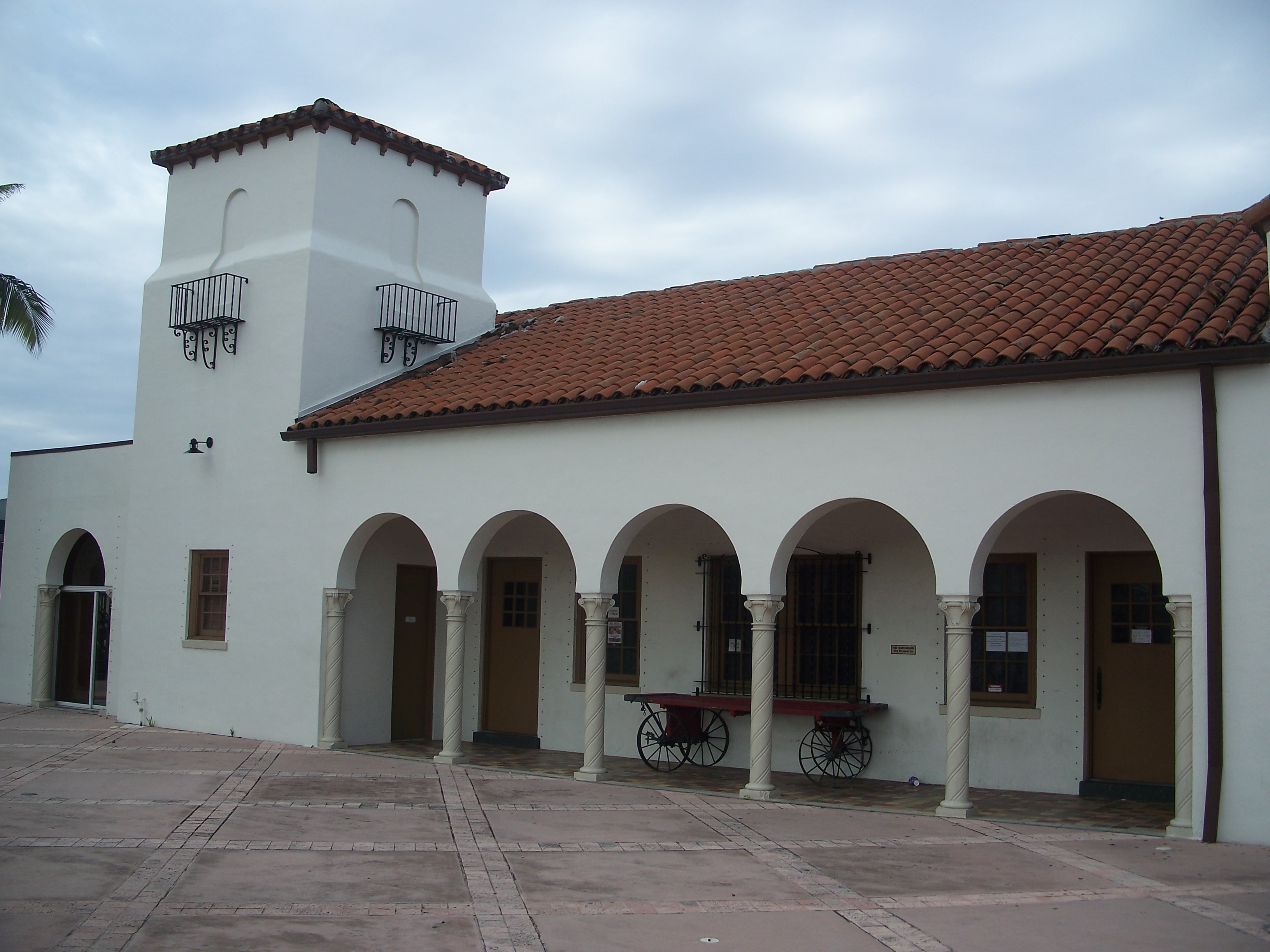 Boca Raton, Florida: Florida East Coast Railway Passenger Station, now the Boca Express Train Museum